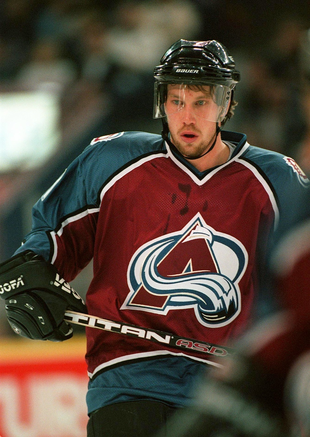 Peter Forsberg in a Colorado Avalanche jersey.